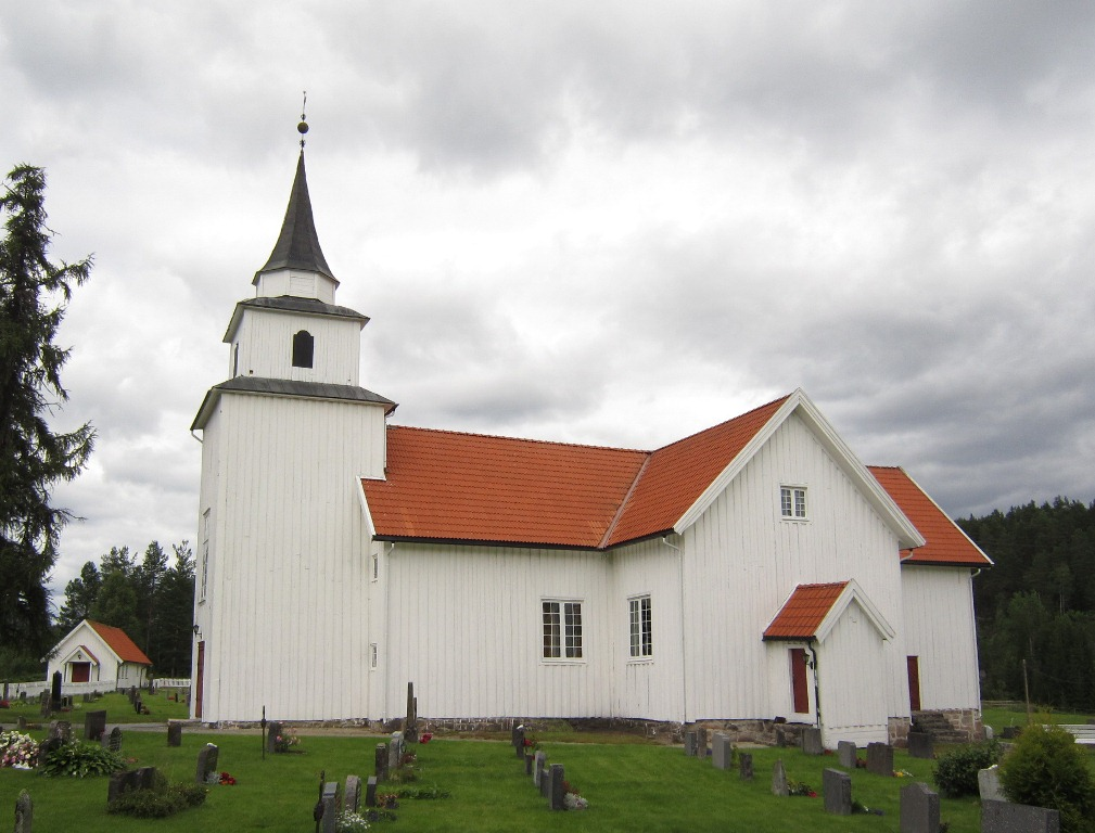 Tørdal church, Drangedal municipaliy, Norway